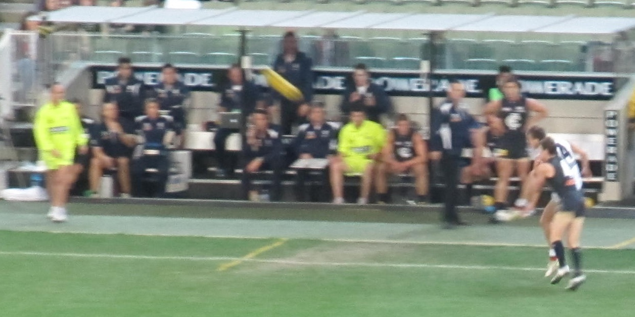 Carlton interchange bench in Round 24, 2011